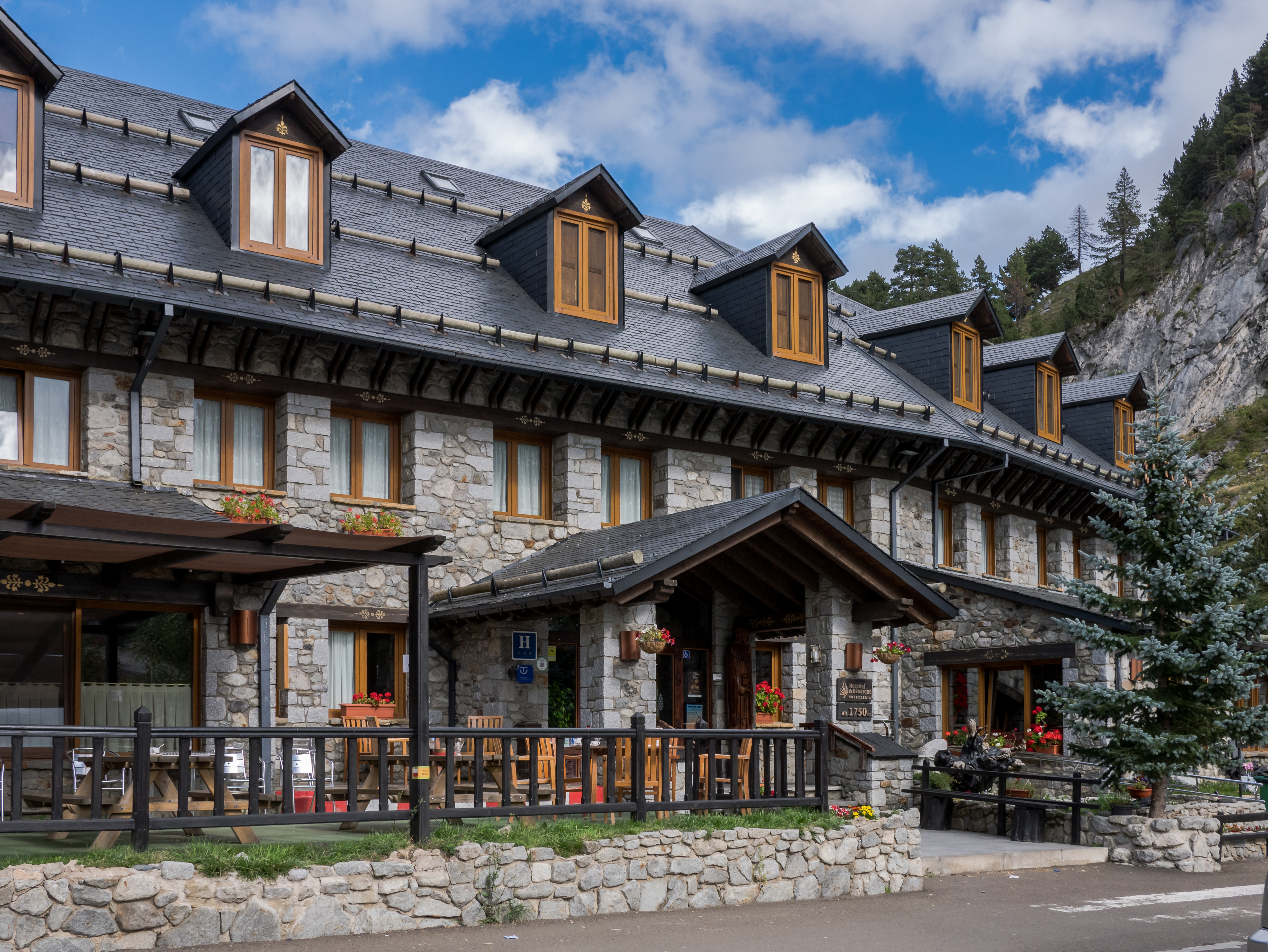 Hotel at Llanos del Hospital. Benasque, Huesca, Aragon, Spain